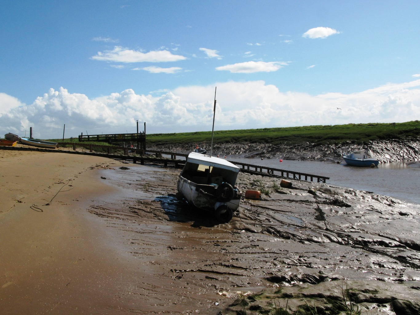 Near the mouth of the river Axe at Uphill, North Somerset, England.